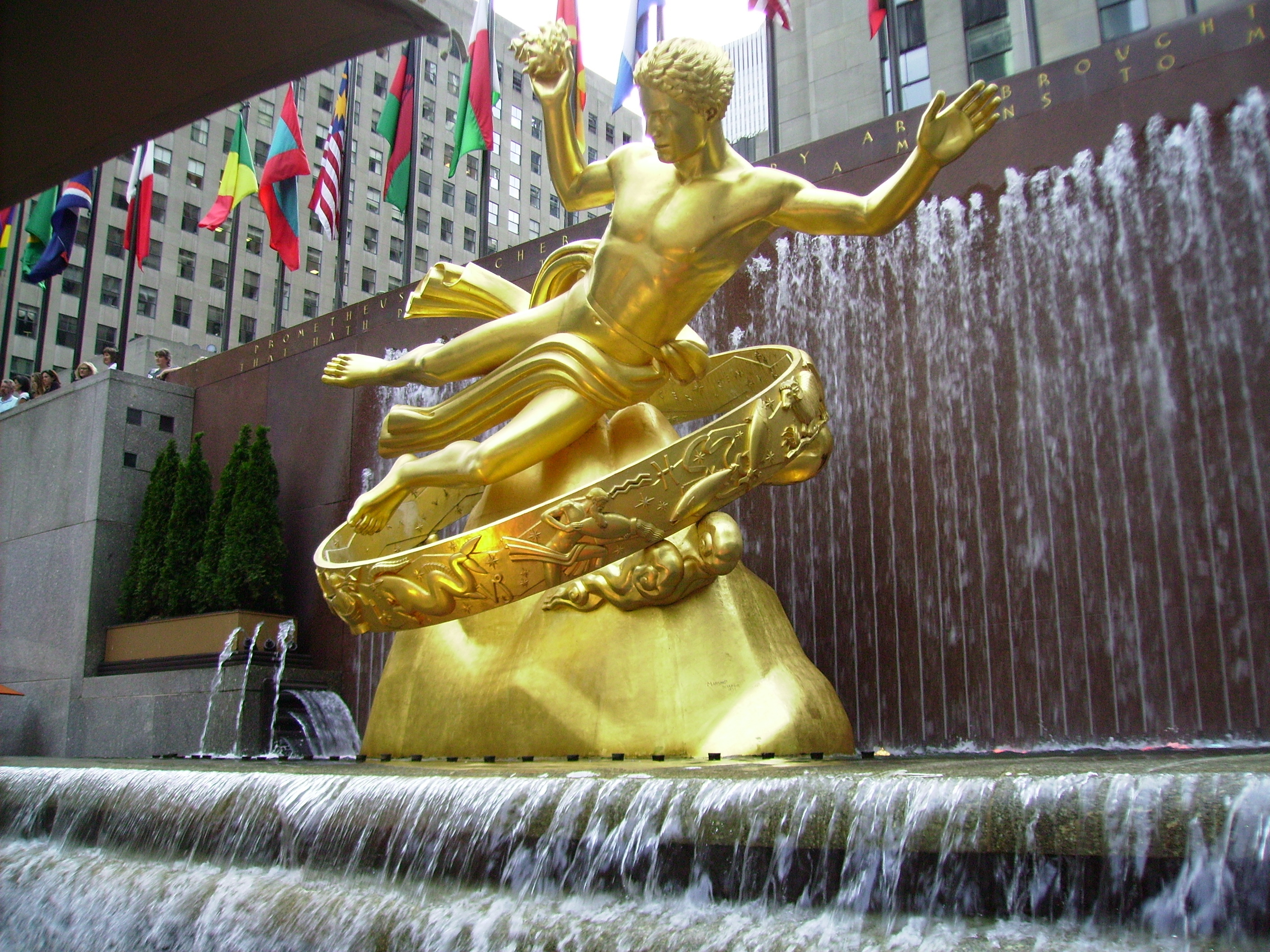 Prometheus at Rockefeller Centre, NY